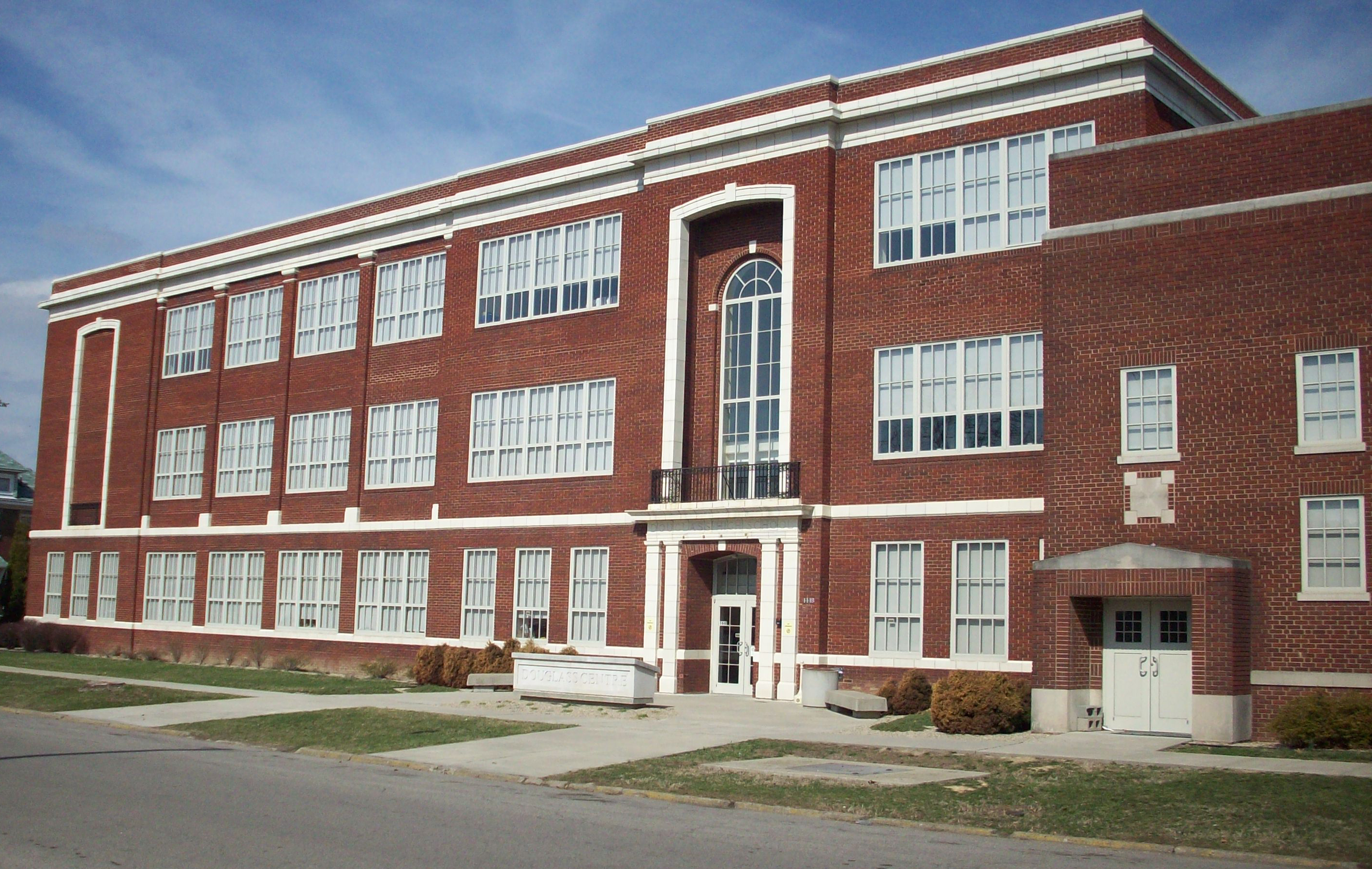 Photo of the Douglass High School building located in the Fairfield West neighborhood of Huntington, West Virginia. The photo was taken from across 10th Ave. The building is now a community center and was the segregation-era high school for African Americans in the city.